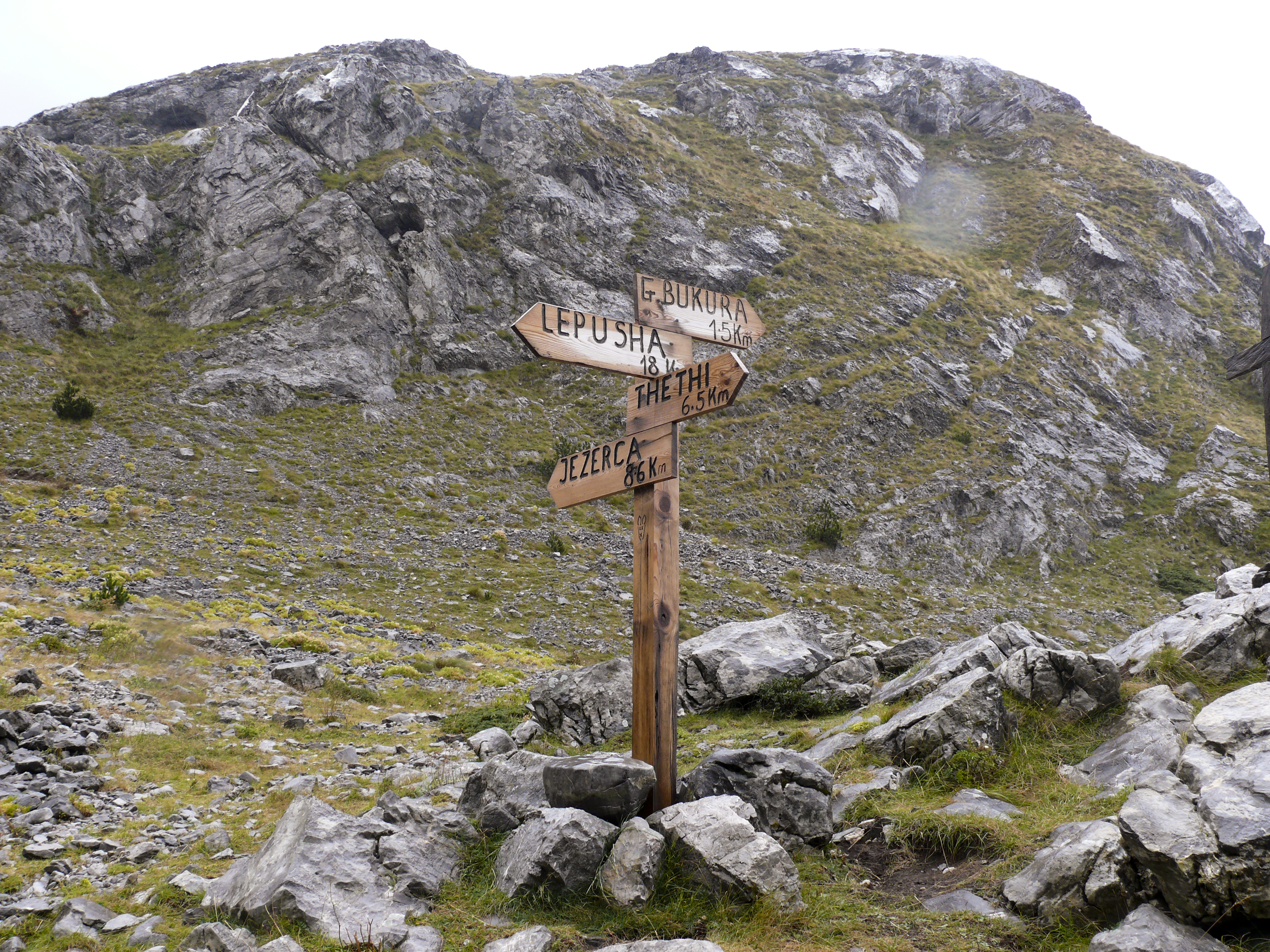 Navigation in the pass by Mt. Arapit